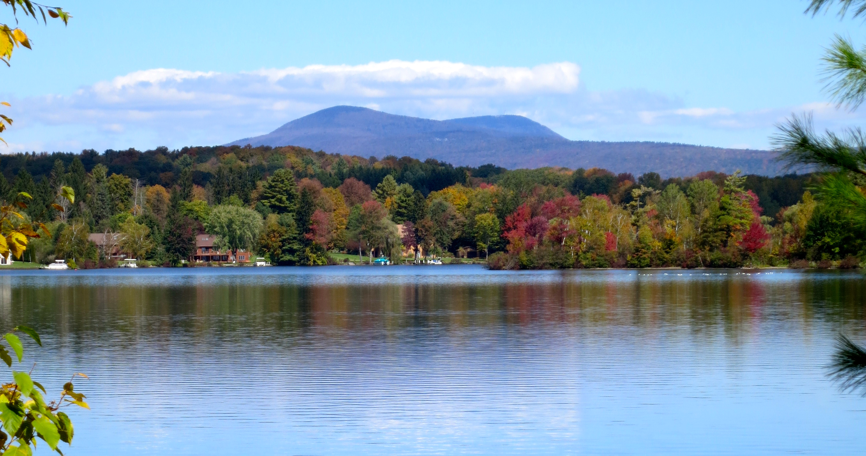 A saddle appearance is present when viewed from the south